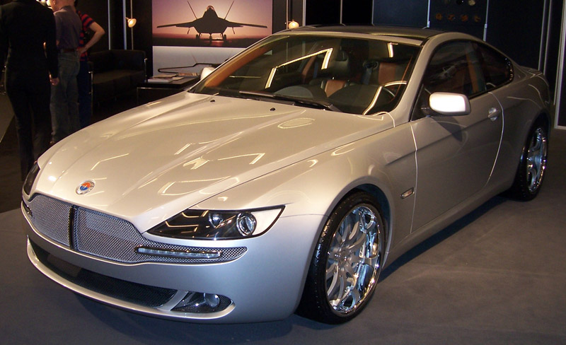 Fisker Latigo CS from the 2005 Frankfurt International Auto Show